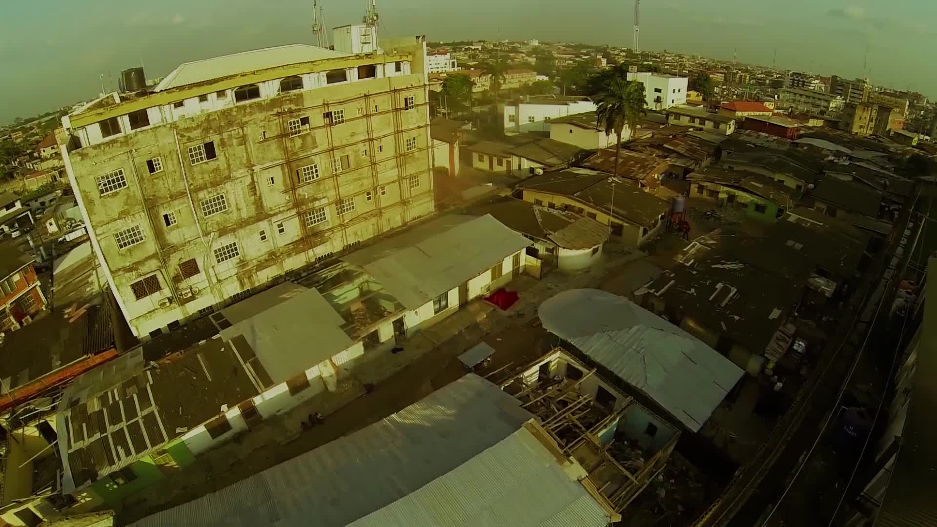 An aerial shot of the slum location, in the heart of the city.